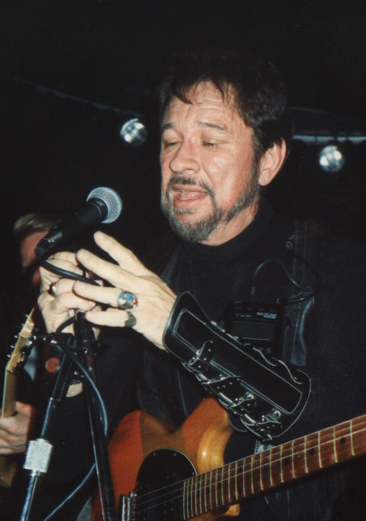 Johnny Carroll performing at the Beat Kitchen in Chicago